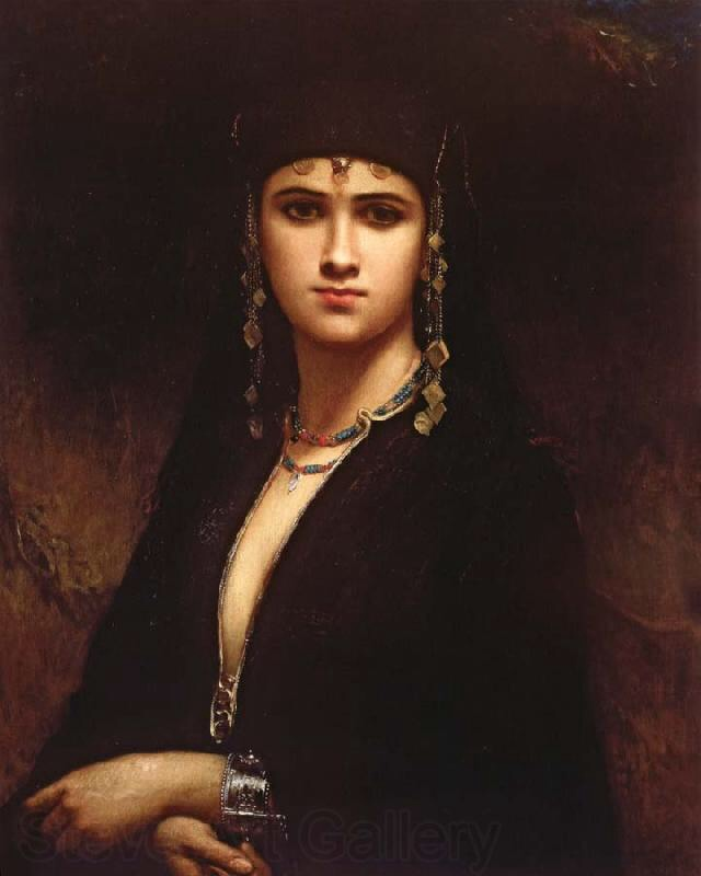 Egyptian Woman